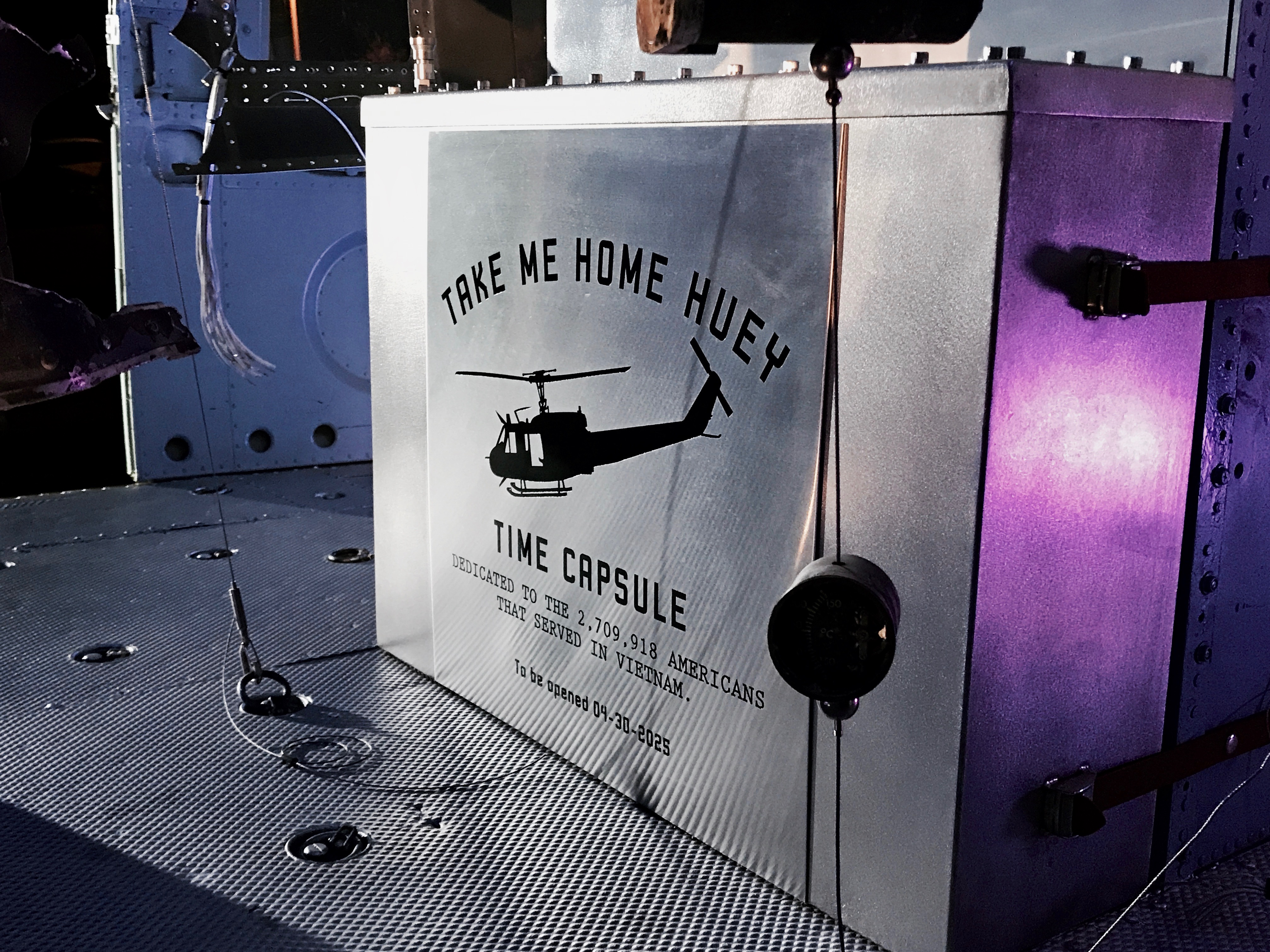 Inside the helicopter is a time capsule that contains original artifacts from veterans. The time capsule is dedicated to the 2,709,918 Americans that served in Vietnam.